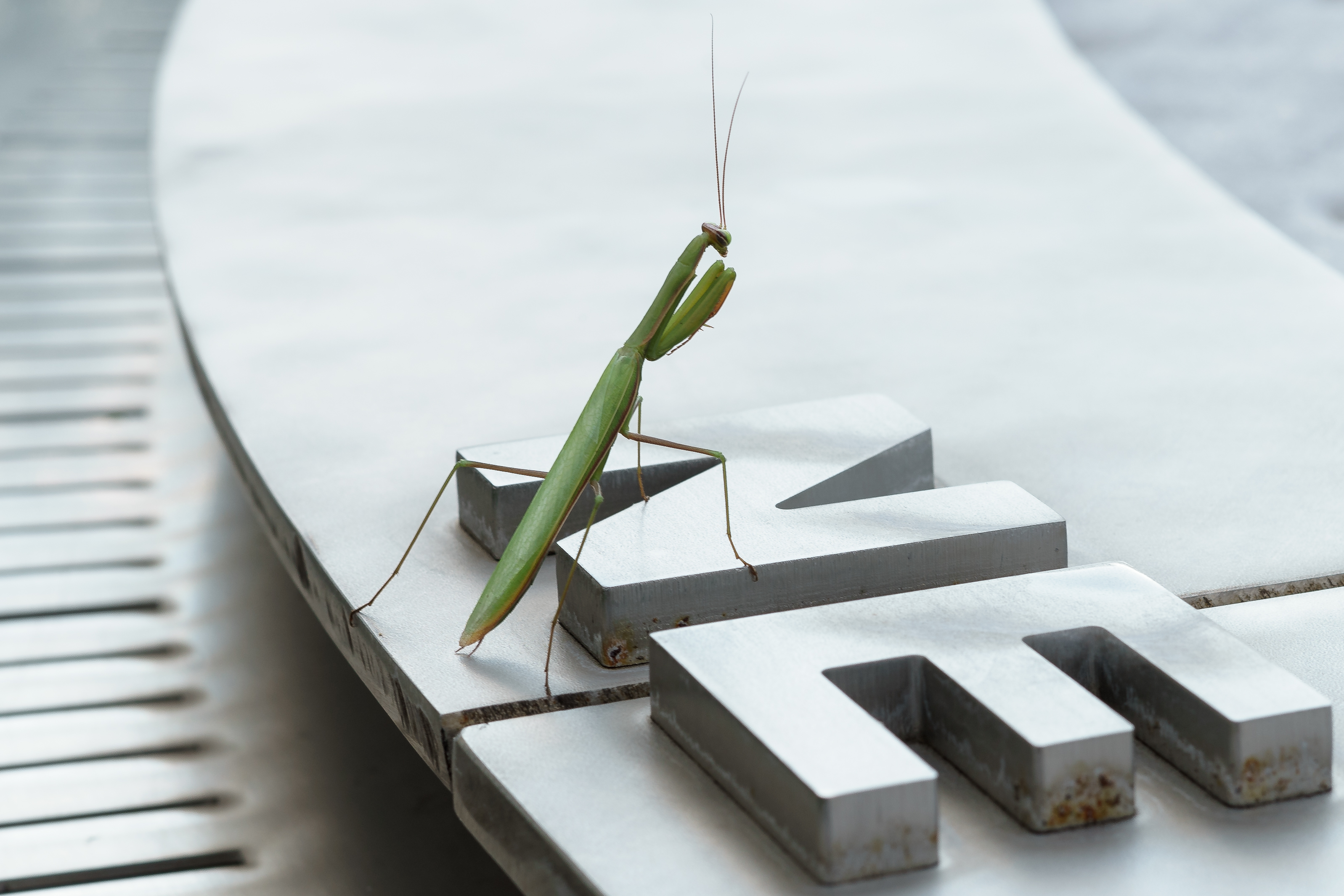 European mantis (Mantis religiosa) at the Aristotlepark of Stagira